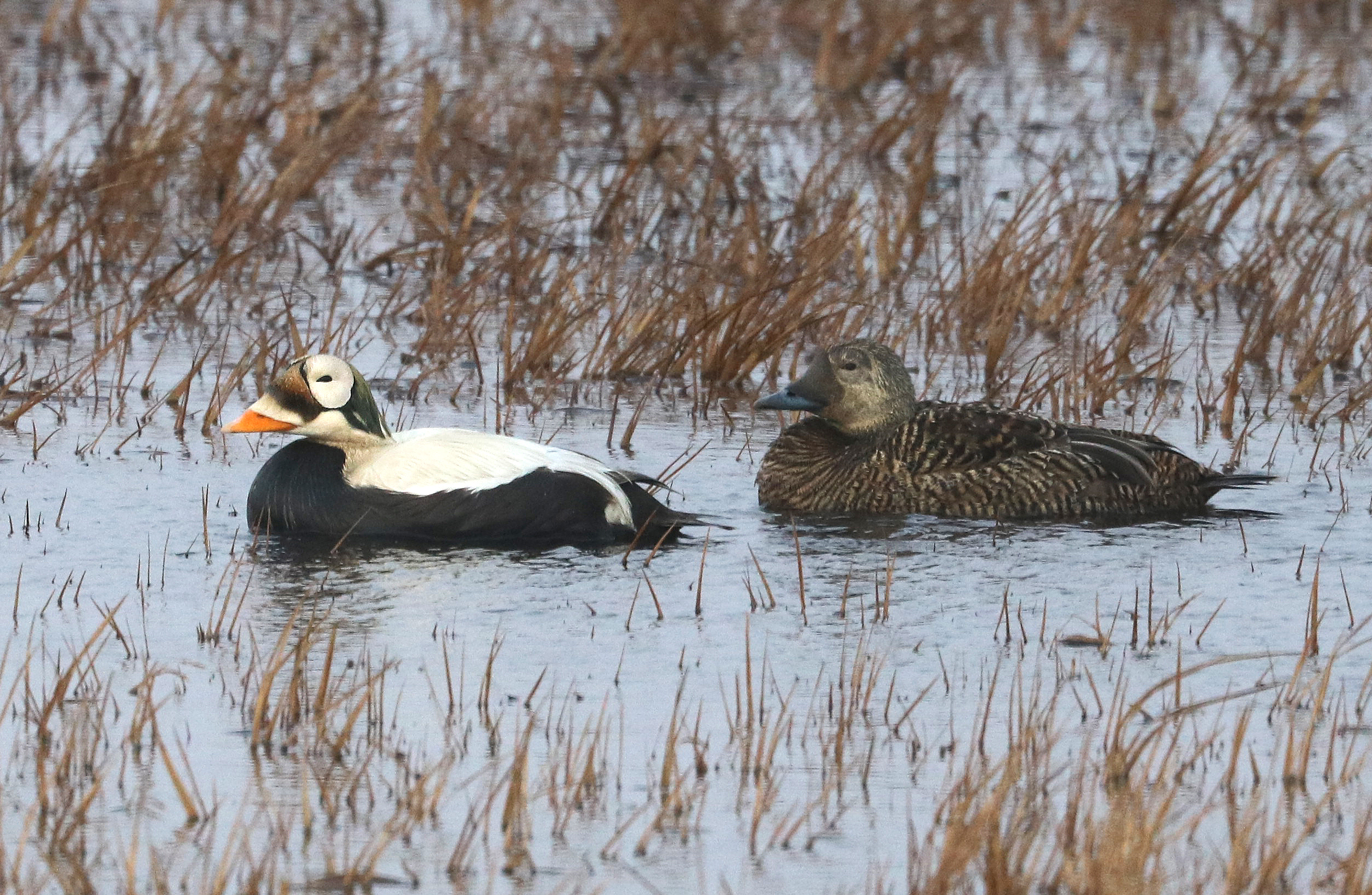 ABA AREA BIRDS: My Photo "Life List"